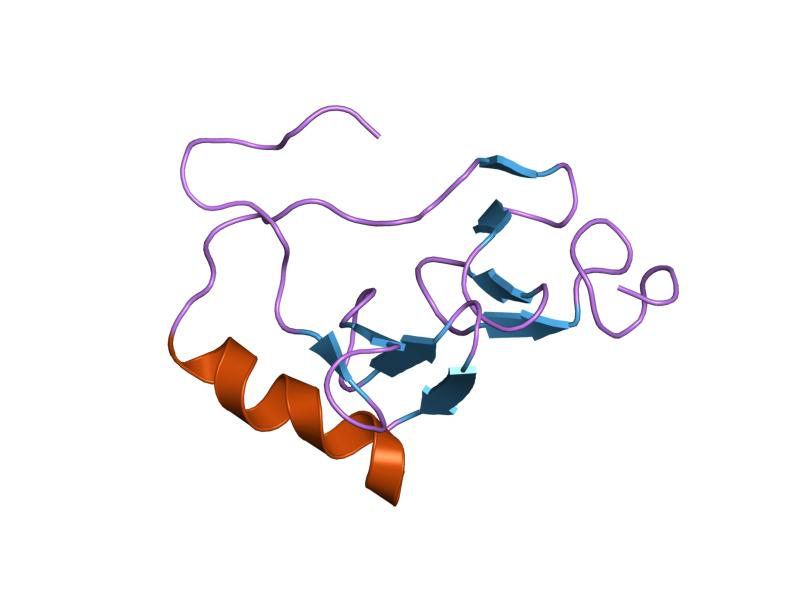 Cartoon representation of the molecular structure of protein registered with 1l5d code.